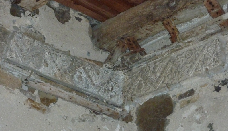 Elcho Castle, Elcho, Perth and Kinross, Scotland - plaster in great hall